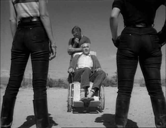 Faster, Pussycat! Kill! Kill! (1965)